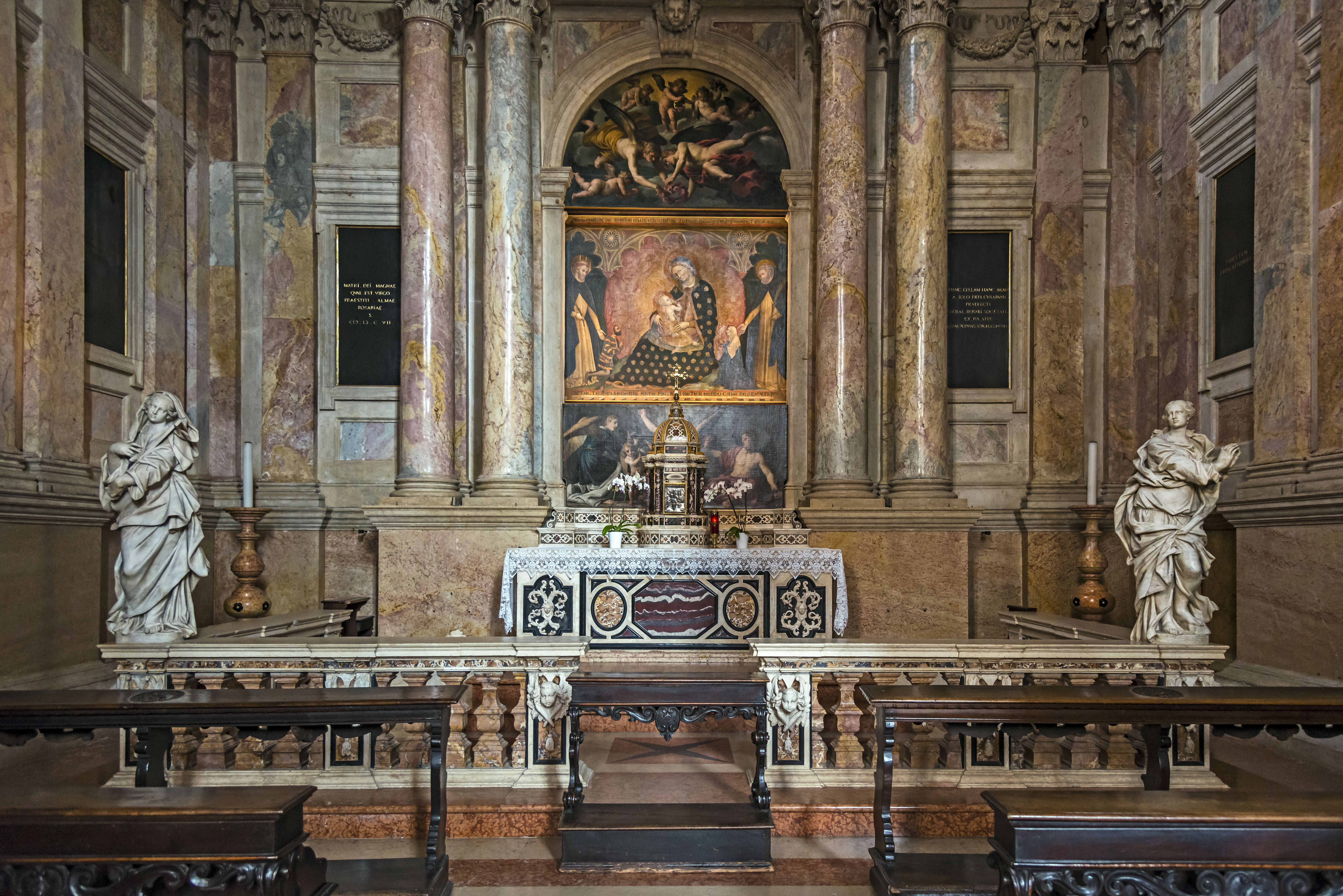 Basilica Santa Anastasia. The Chapel of the Rosary (1585 - 1596). Built to celebrate the victory Leponto (1571) by Domenico Curtoni (late 16th - early 17th century.) Nephew of architect Michele Sanmicheli. Above the atare there is the Madonna of ll'Umilità with Saints Peter martyr and Dominic and CangrandeII bidders della Scala and his wife Elisabeth of Bavaria, a painting by Lorenzo Veneziano (second half of the 14th century).